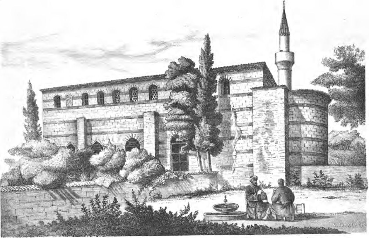 Byzantinai meletai topographikai (1877) Author: Paspatēs, Alexandros Geōrgiou, 1814-1891. [from old catalog] Subject: Inscriptions, Greek Year: 1877 Possible copyright status: NOT_IN_COPYRIGHT Language: English Digitizing sponsor: Google Book contributor: Oxford University Collection: europeanlibraries